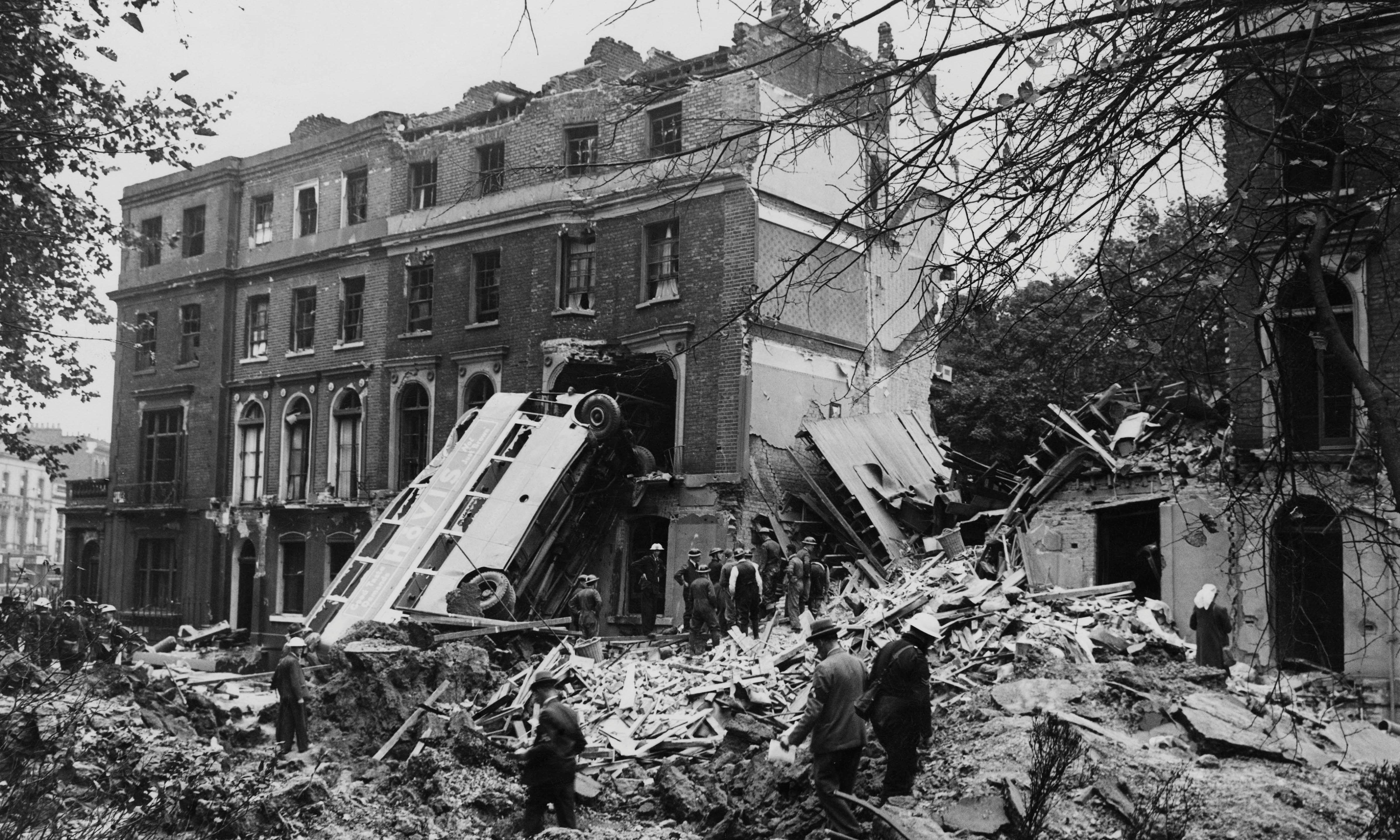 A bus is left leaning against the side of a terrace in Harrington Square, Mornington Crescent, in the aftermath of a German bombing raid on London in the first days of the Blitz, 9th September 1940. The bus was empty at the time, but eleven people were killed in the houses.